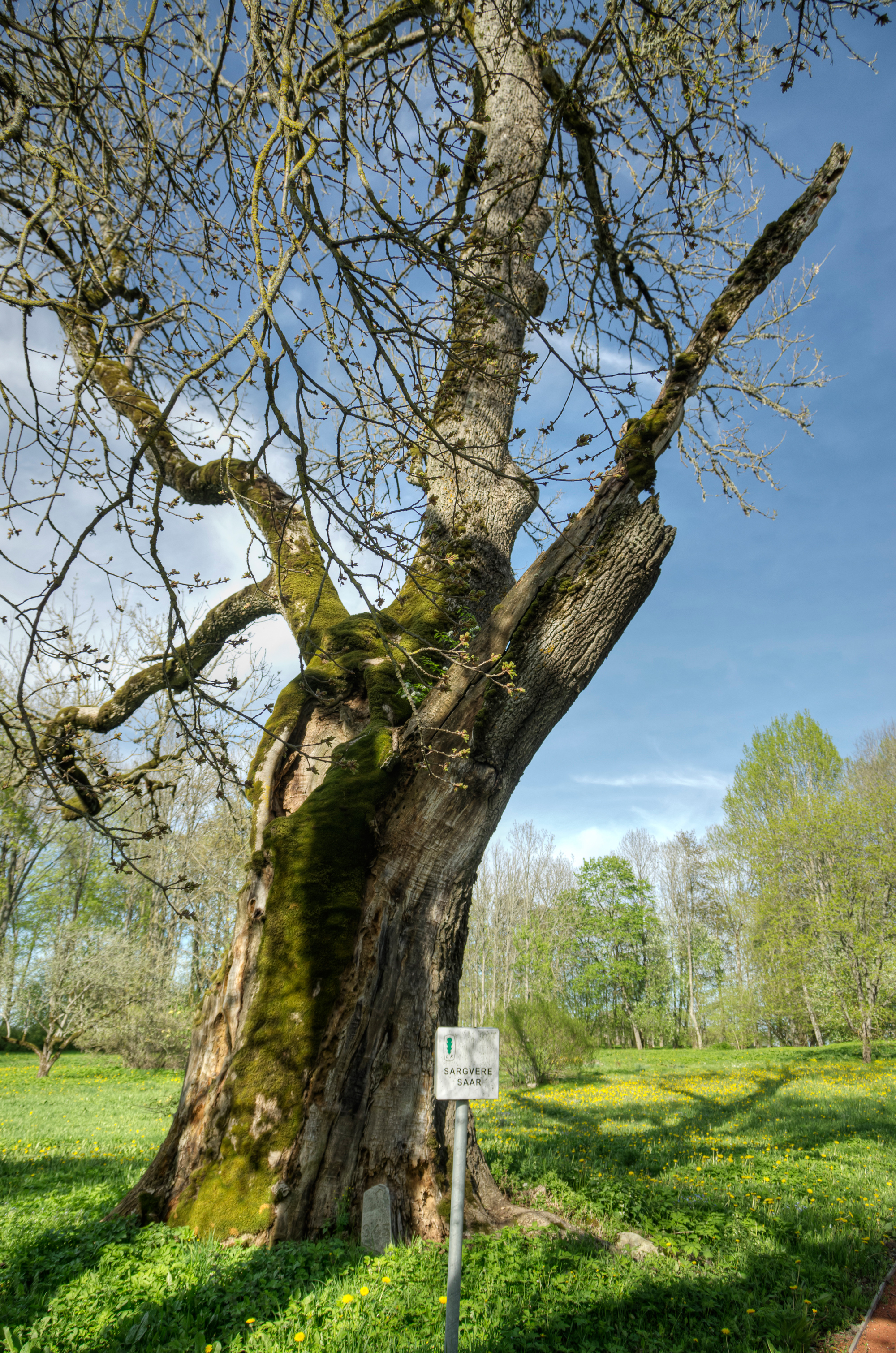 Bole of Sargvere ash (Fraxinus excelsior)